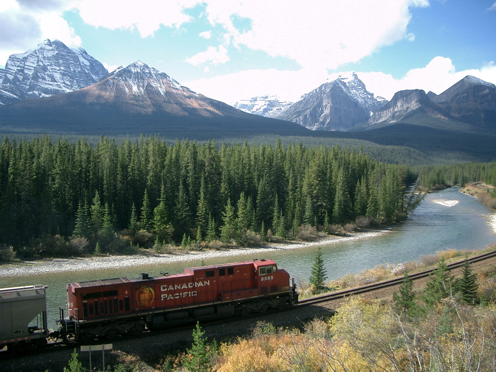 Train in Rockies